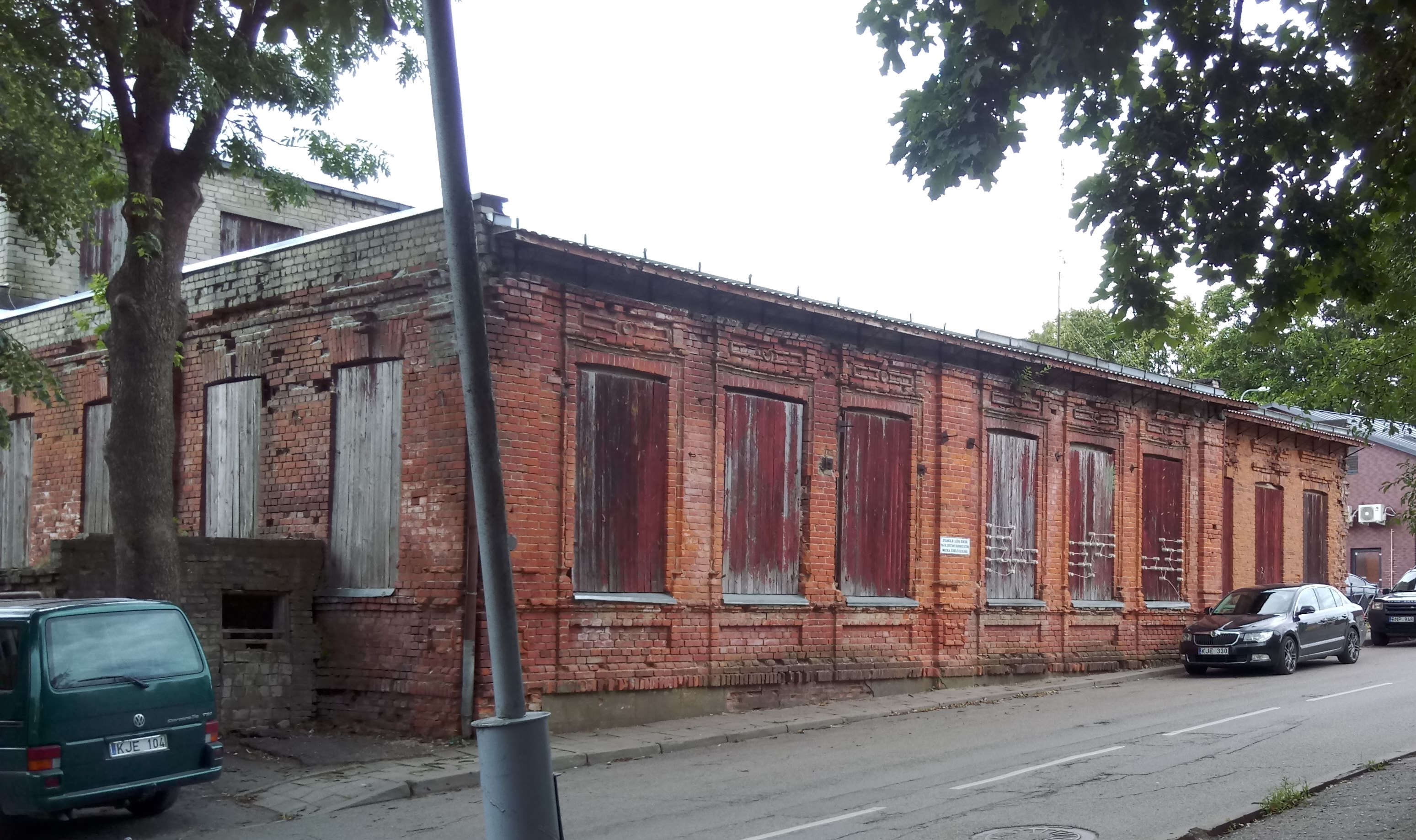 Telshe yeshiva building in 2018